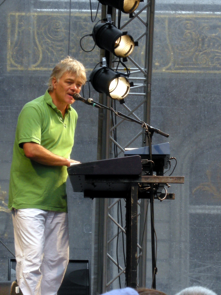 Robert Jan Stips of the dutch Band Nits at the Haags UIT Festival 2008